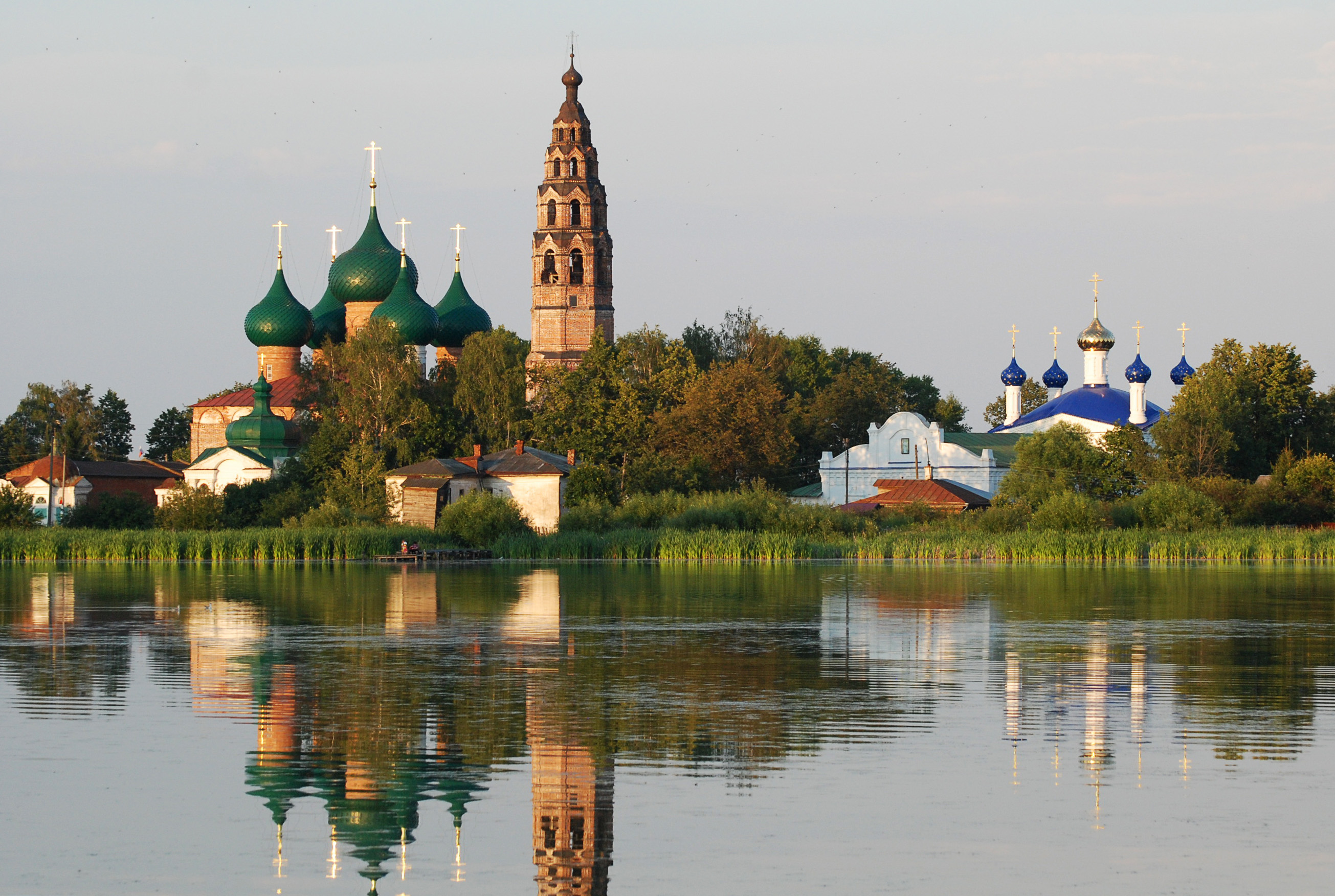 The Velikoselskiy Ensemble from the Black Pond